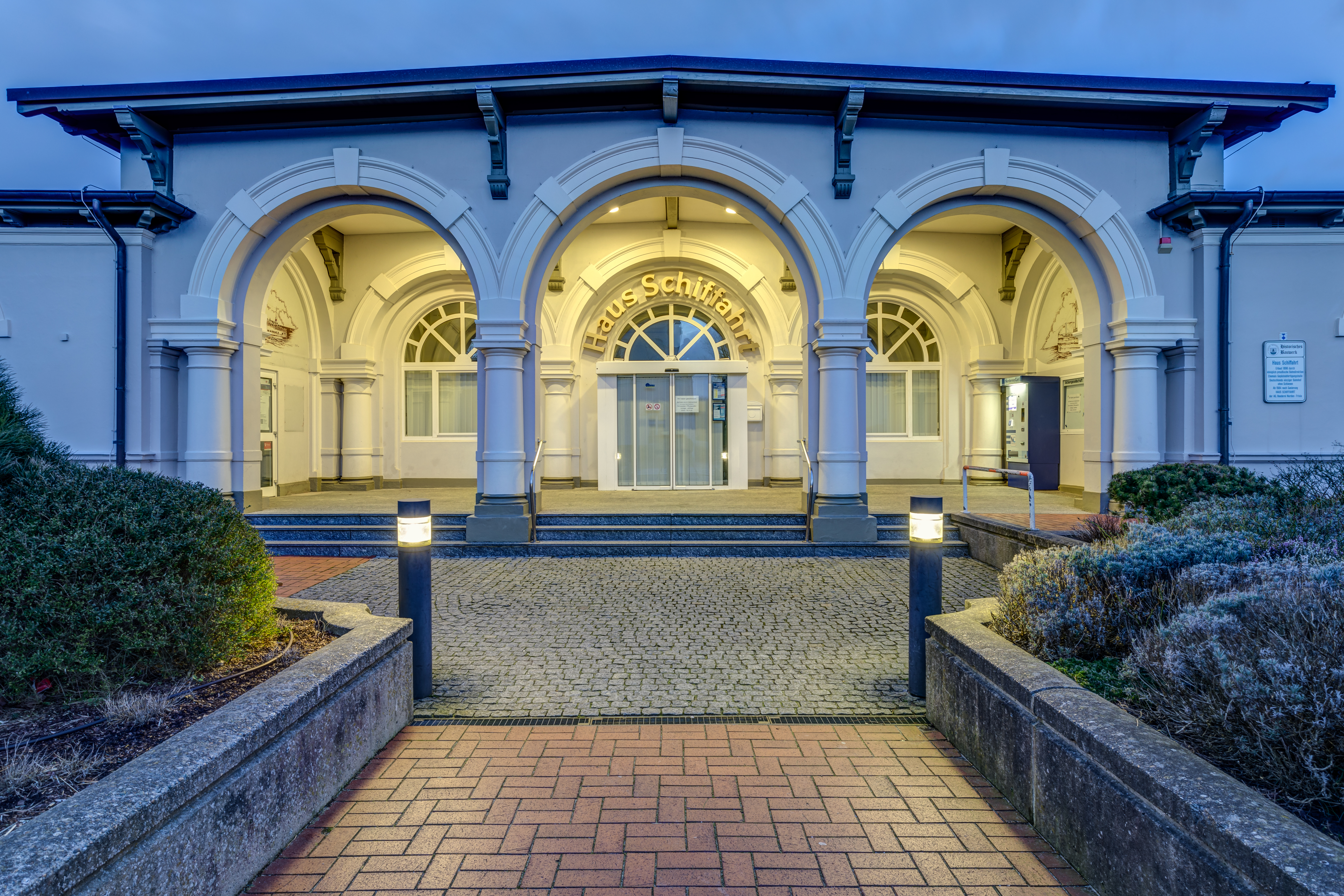 Haus Schiffahrt, Norderney, Lower Saxony, Germany